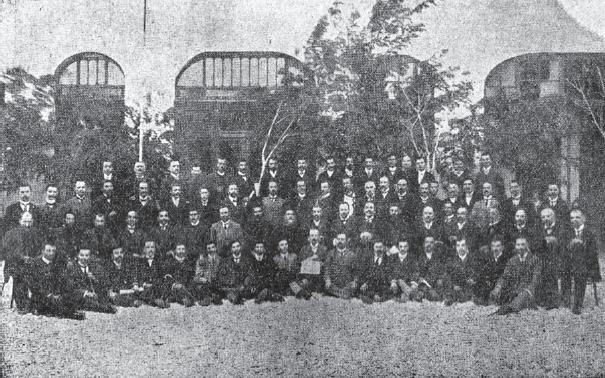 Congres of SBKK /bulgarian partee of Young turks revolution/